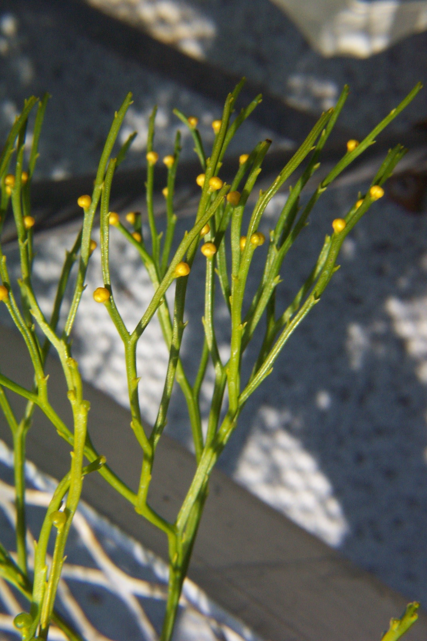 Psilotum fern.